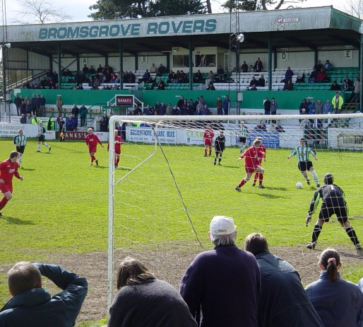 Bromsgrove Rovers - Cinderford Town at Victoria Ground, last game at home in season 2003/04.